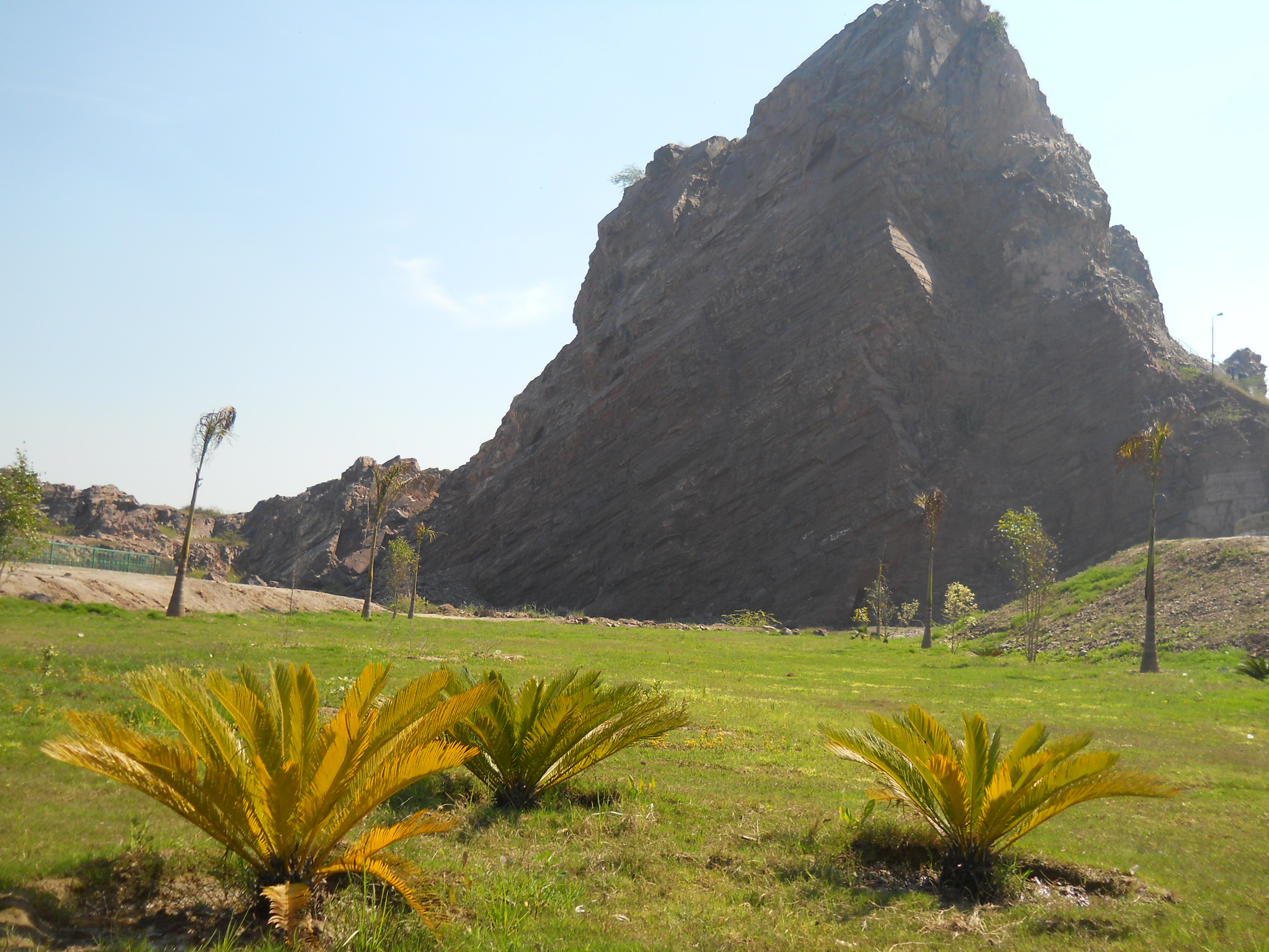 This is the hill of Sangla